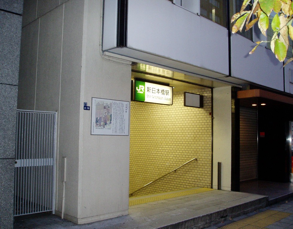 JR East Shin-Nihomnashi Station Exit 4 (Closed now as the building was torn down)